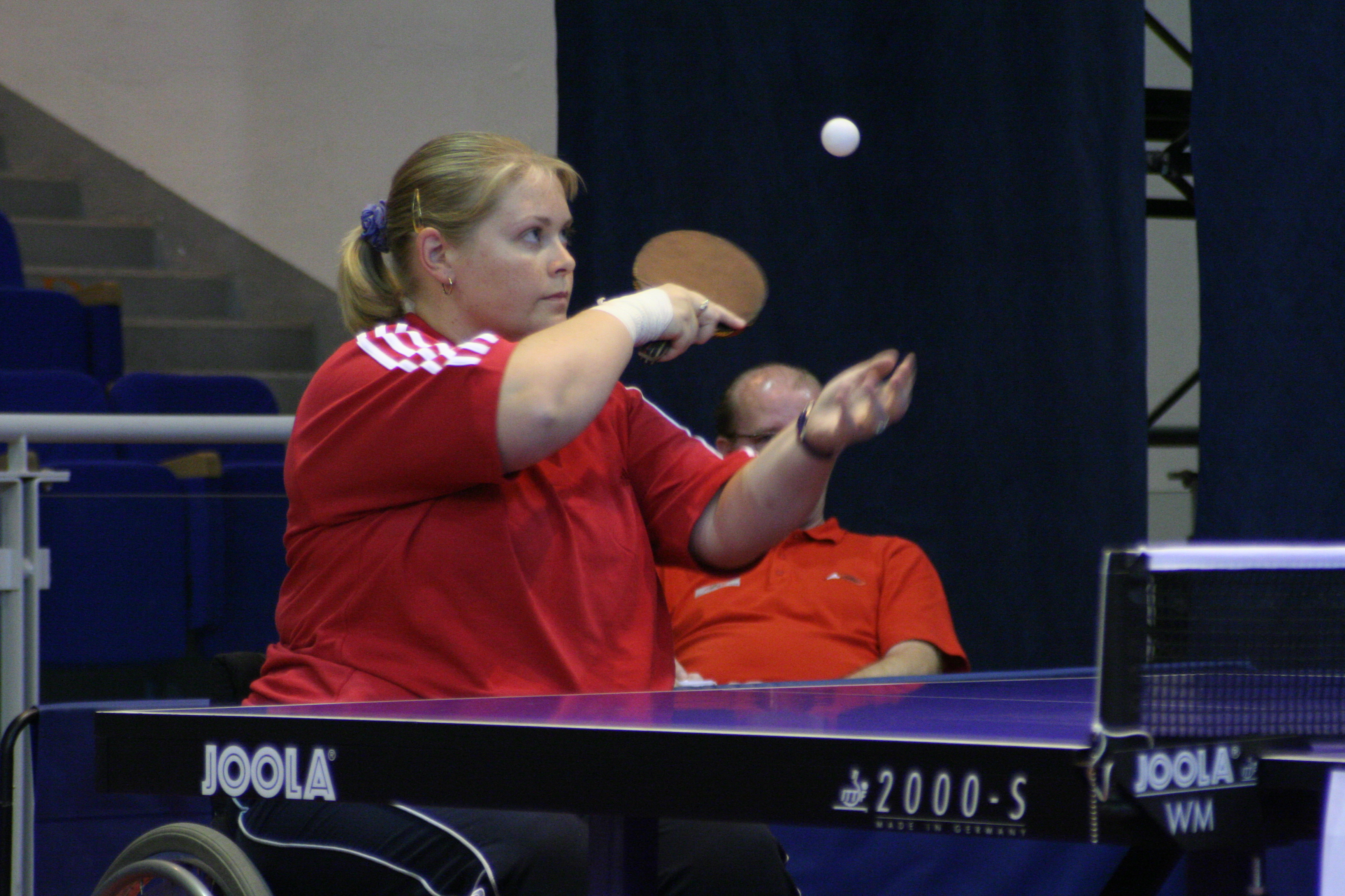 2005 Para Table Tennis European Championship in Jesolo (Italy) - 15-26 September 2005